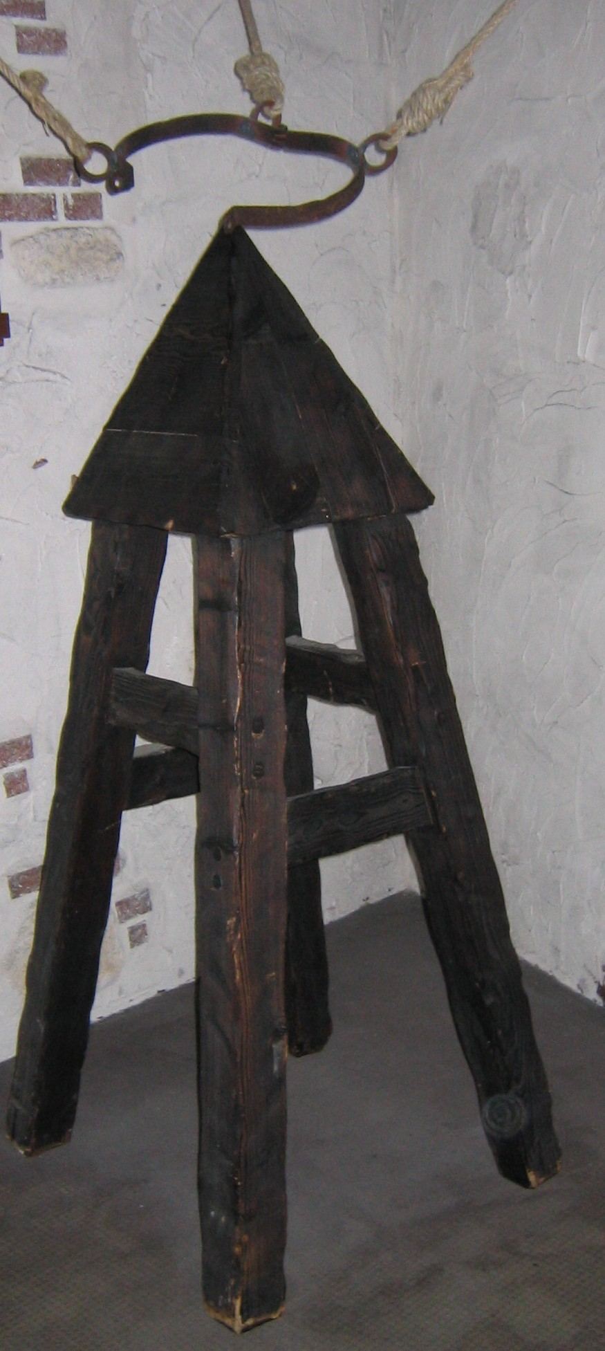 Judas Chair or cradle at the torture museum in Freiburg im Breisgau